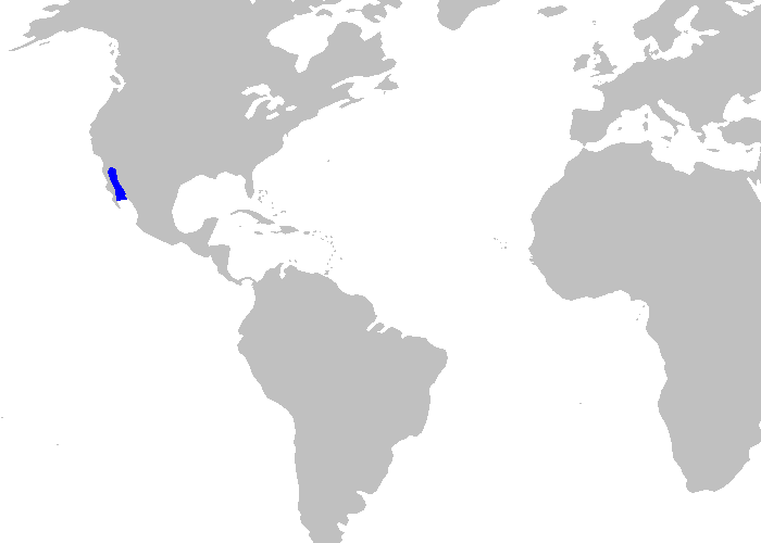 Distribution map for Galeus piperatus